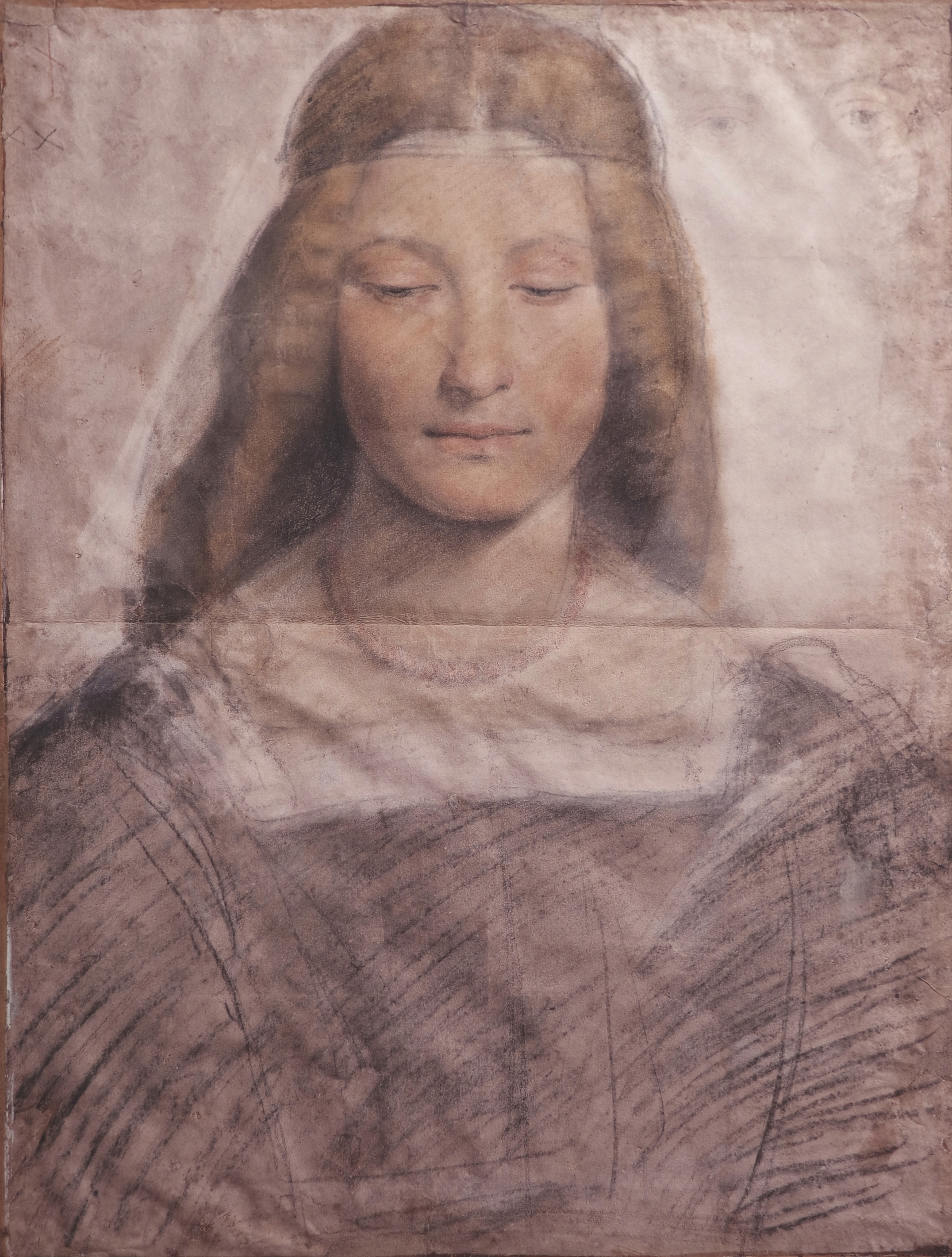 Probably Isabella of Naples or Isabella d'Aragona, Duchess of Milan, Duchess of Bari and Princess of Rossano (1470-1524). Or, probably, Lucrezia Borgia, Duchessa di Ferrara, Modena e Reggio (Subiaco, 18 aprile 1480 – Ferrara, 24 giugno 1519).